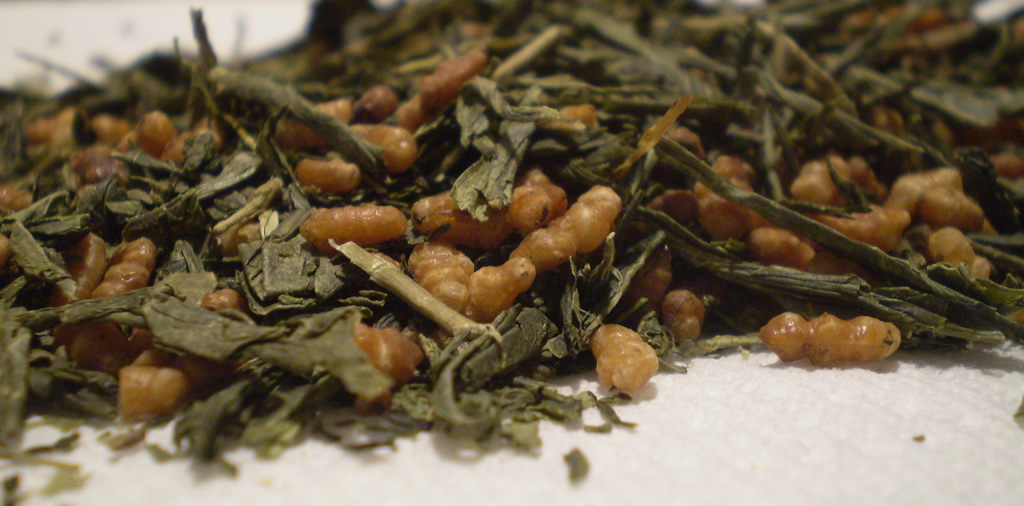 A pic of Genmaicha, Japanese "popcorn" tea, extracted from by the owner of the work.